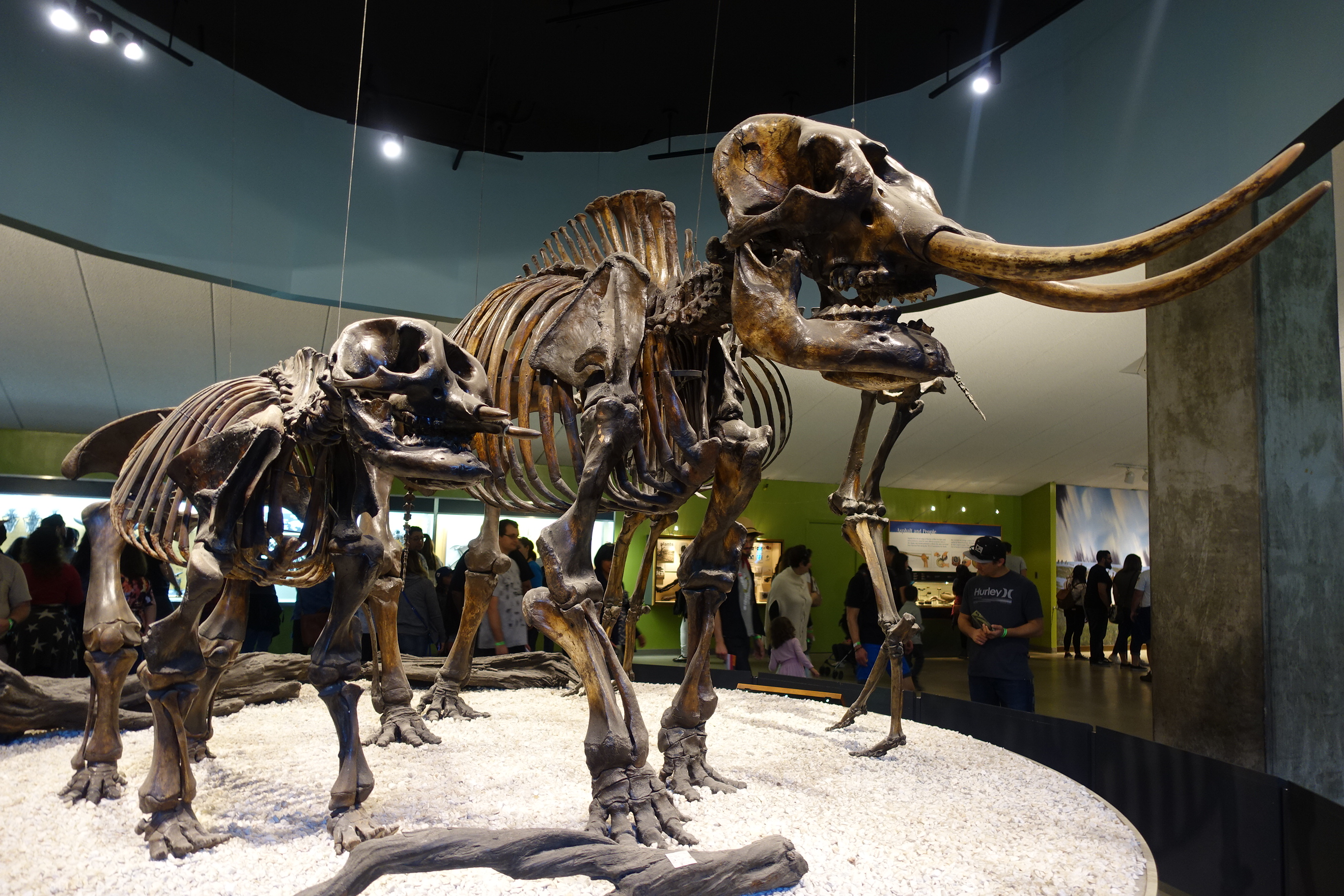 La Brea Tar Pits Museum - American Mastodon